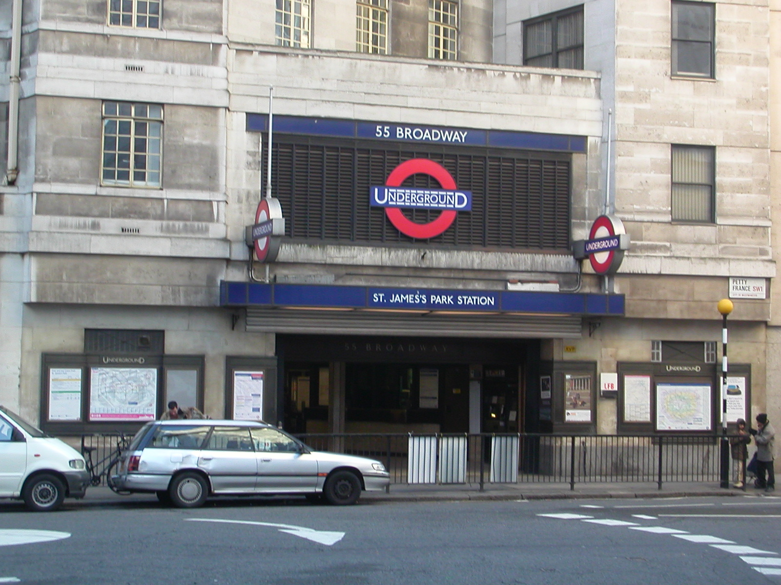 Broadway entrance to St. James's Park LU station.